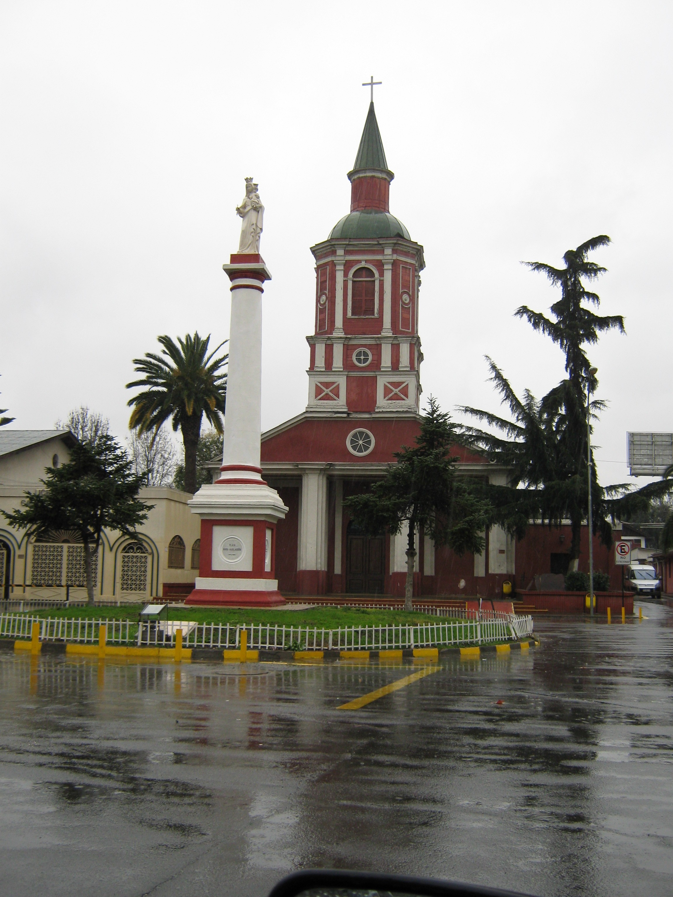 Sagrada Familia Chapel besides Liceo salesiano "Camilo Ortuzar Montt" Santiago-Macul